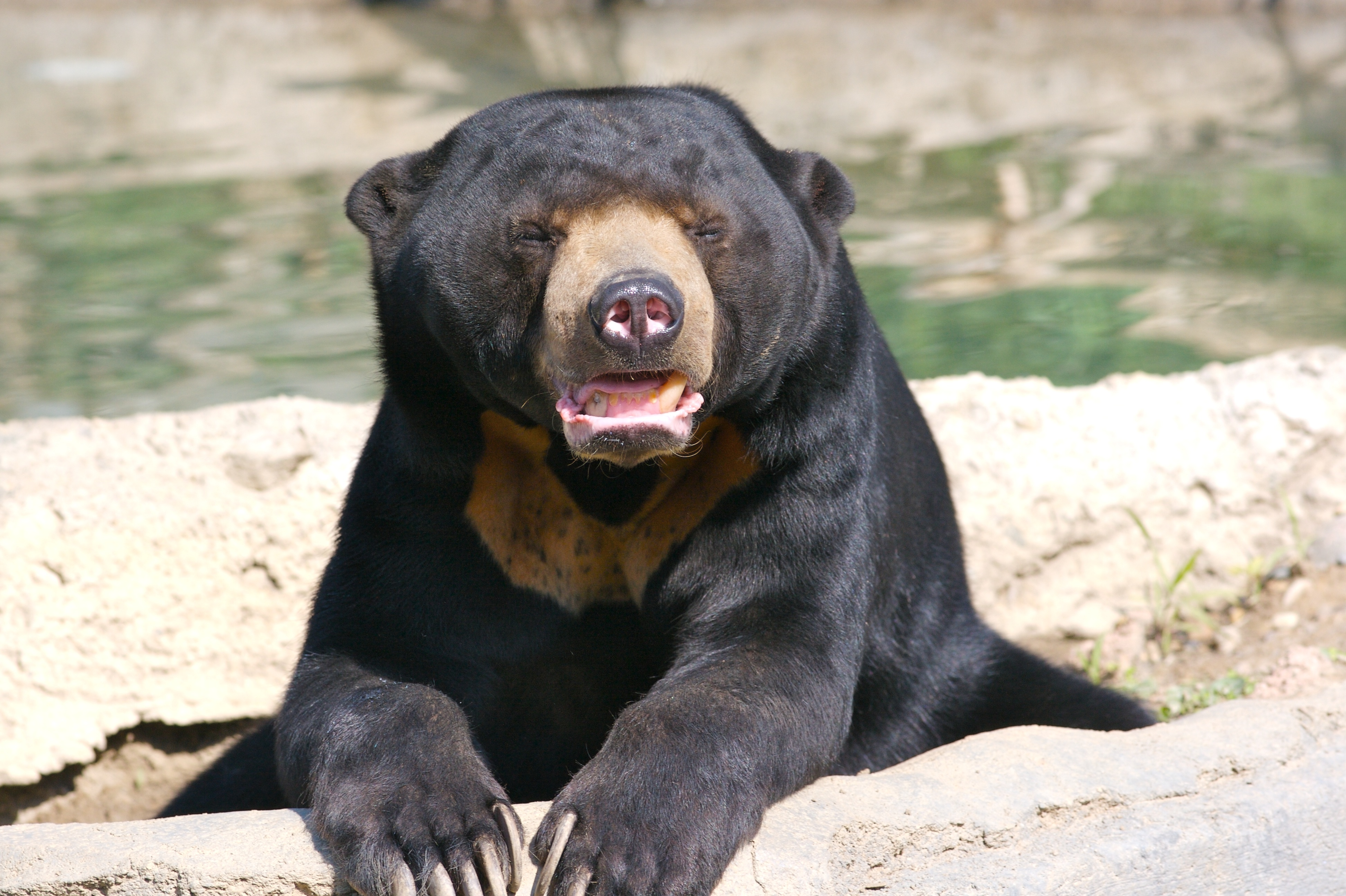 Sun Bear (Helarctos malayanus) in captivity at the Columbus Zoo, Powell, Ohio